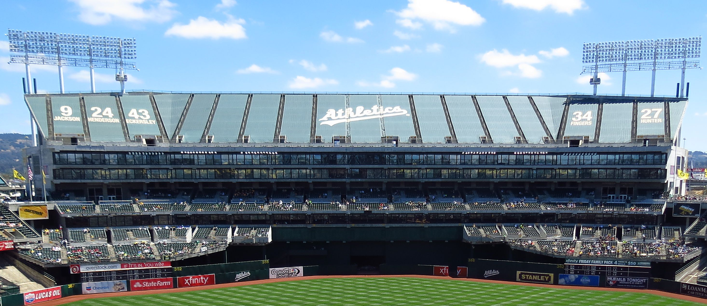 Cincinnati Reds at Oakland Athletics